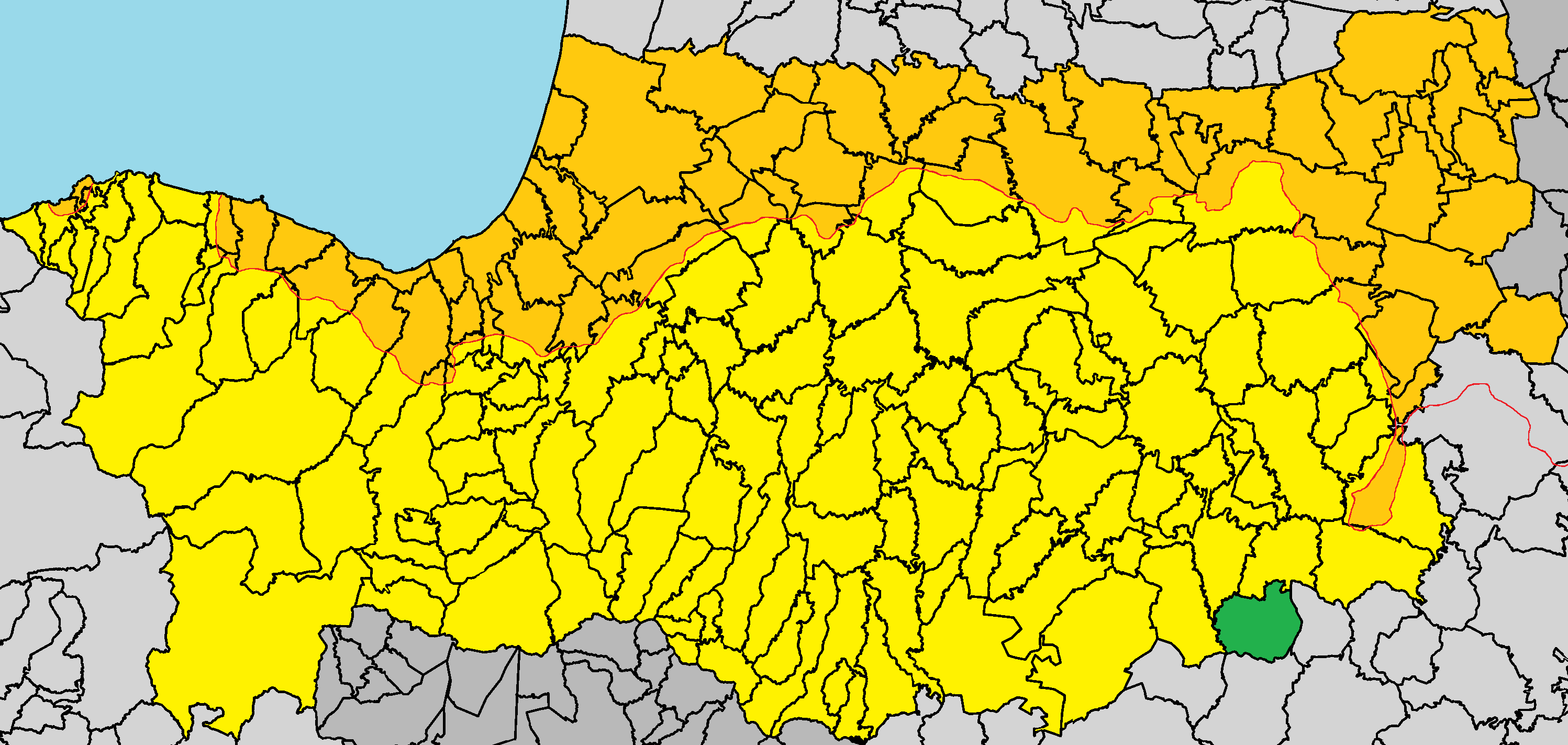 Sia in Nicosia District.